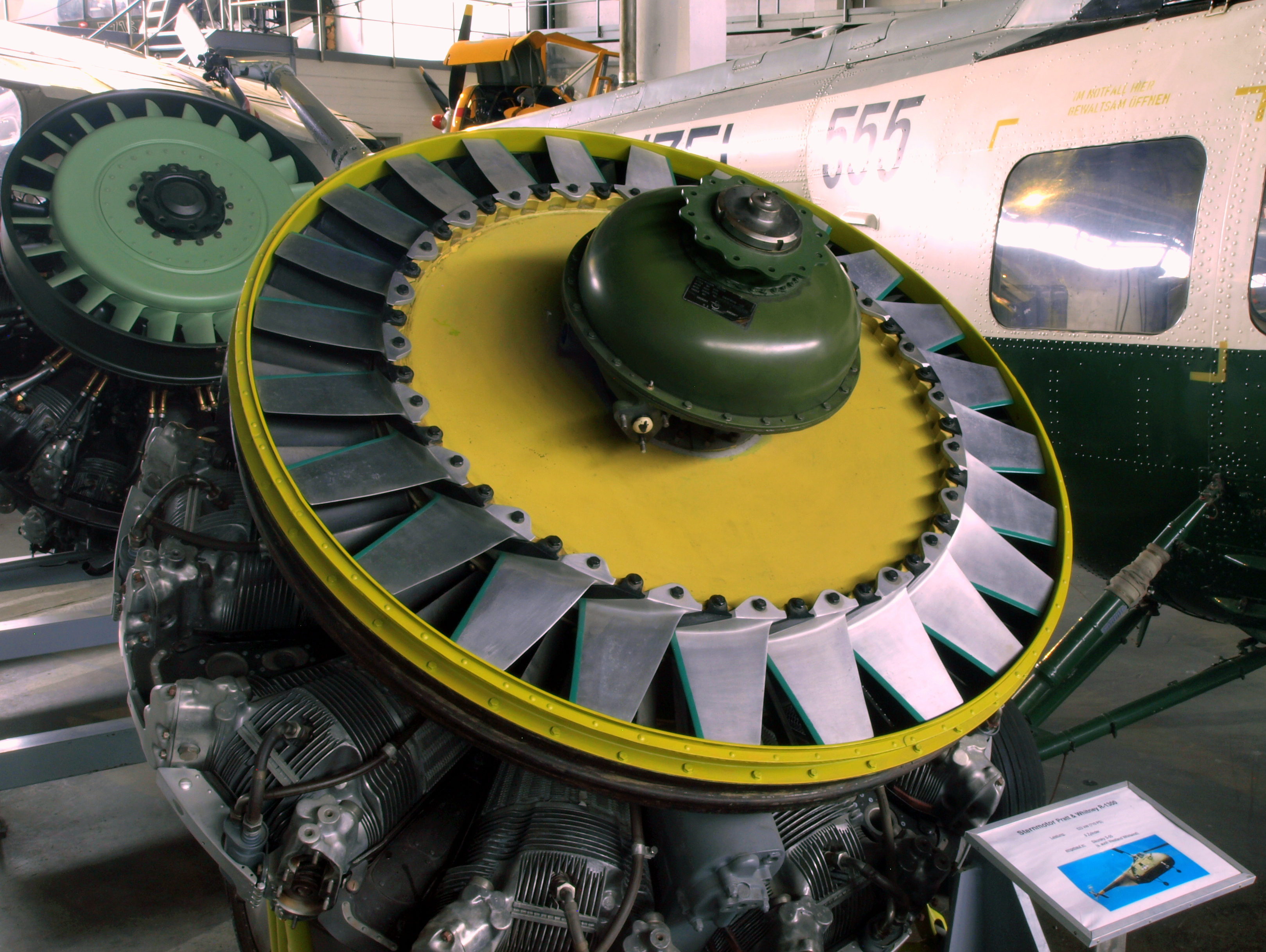 Wright R-1300